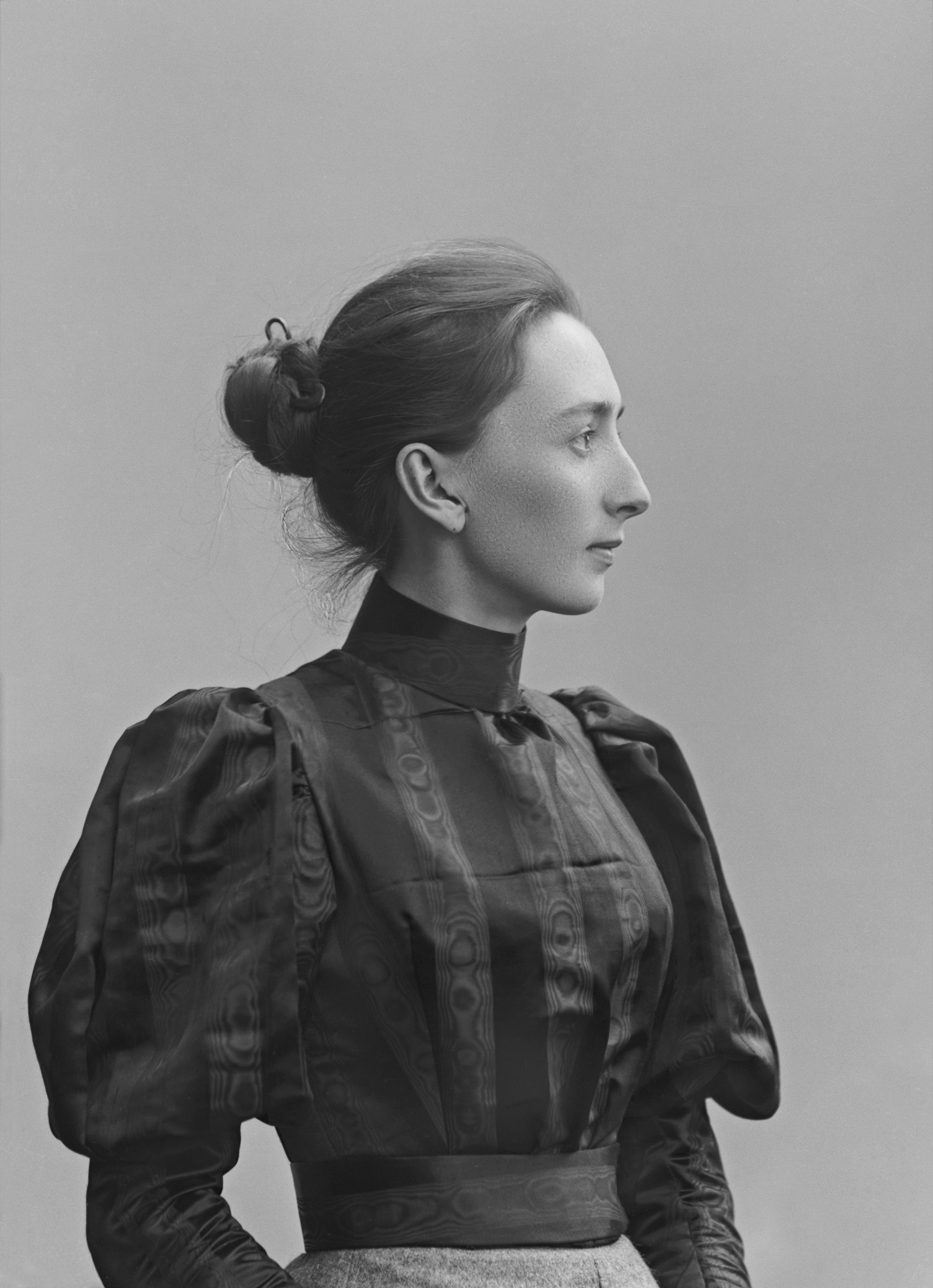 Photograph of Aino Sibelius (née Järnefelt), wife of Finnish composer Jean Sibelius, taken about 1891–1892